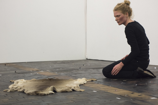 Performance Art Award 2014, Gisela Hochuli during her performance "In Touch with M.O. - eine Auslese". For this work she received the Performance Preis Schweiz 2014